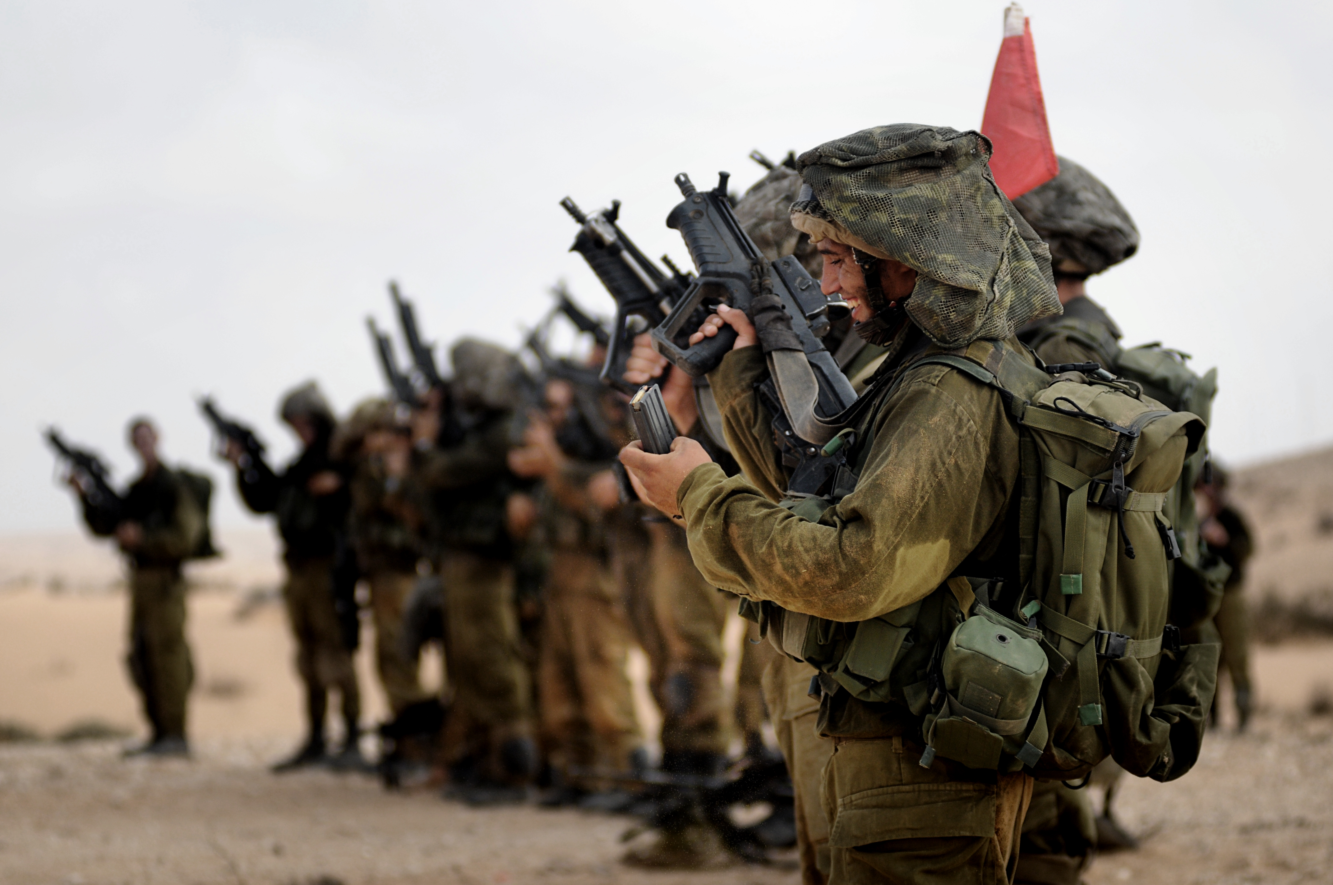 August 12, 2009. The Reconnoissance Company of the Givati Brigade underwent a company training week in southern Israel, as part of their advanced training. Due to the elite nature of the company there were two separate company exercises, wherein the first was "dry" and the second included live fire. Featured as "Photo of the Day" on January 15th, 2012 Photo by Michael Shvadron, IDF Spokesperson's Film Unit. The Israel Defense Forces Facebook page The Israel Defense Forces blog Follow us on Twitter